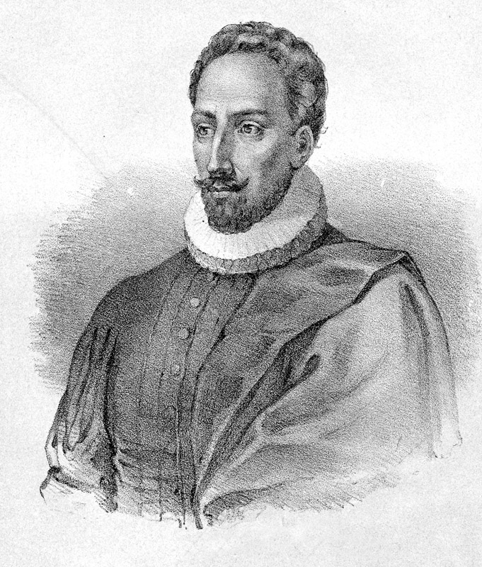 Lithograph of Miguel de Cervantes. Note: there are no contemporary images of Cervantes, only portraits made after his death.